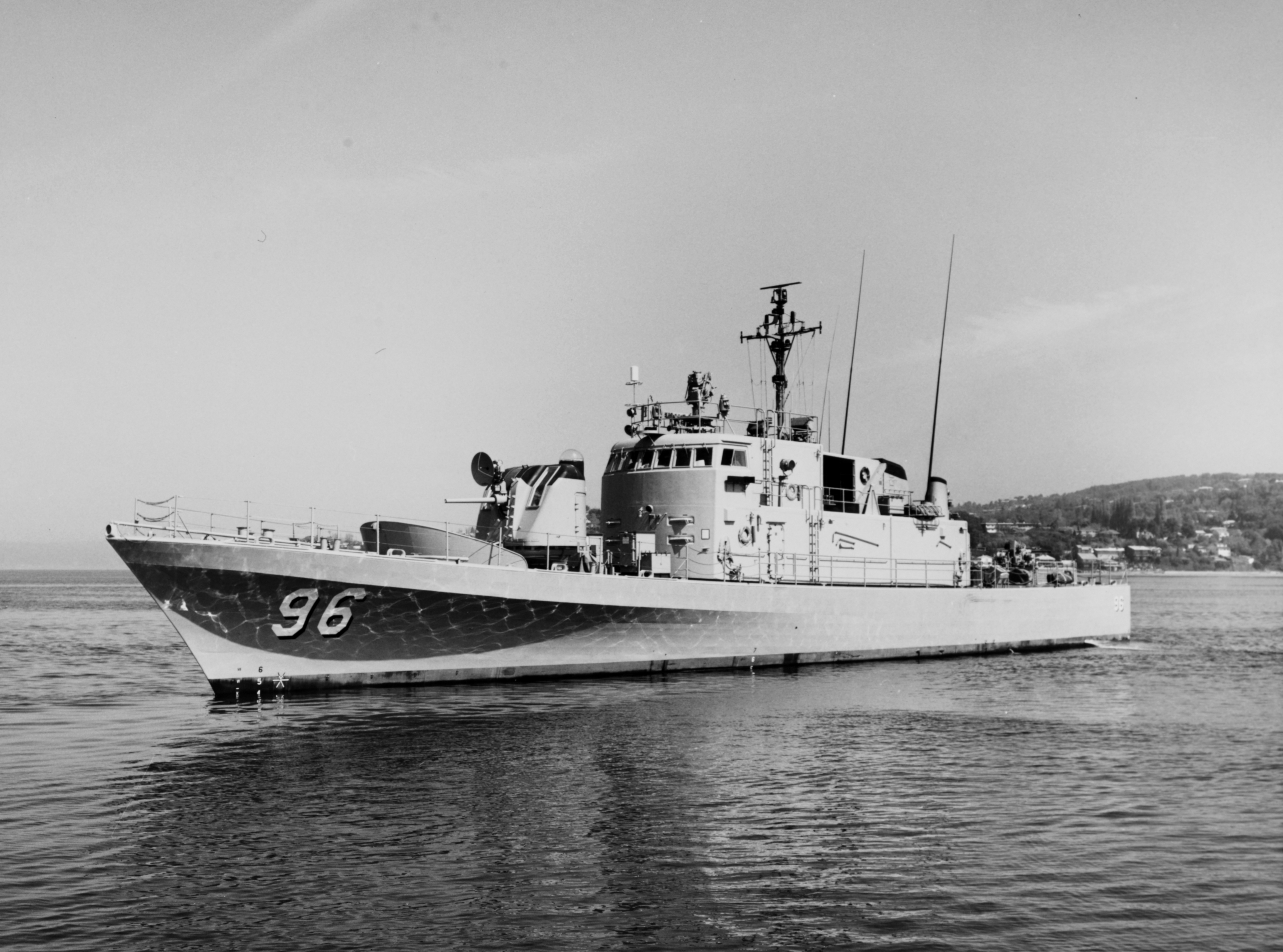 The U.S. Navy patrol gunboat USS Benicia (PG-96) on 17 April 1970.